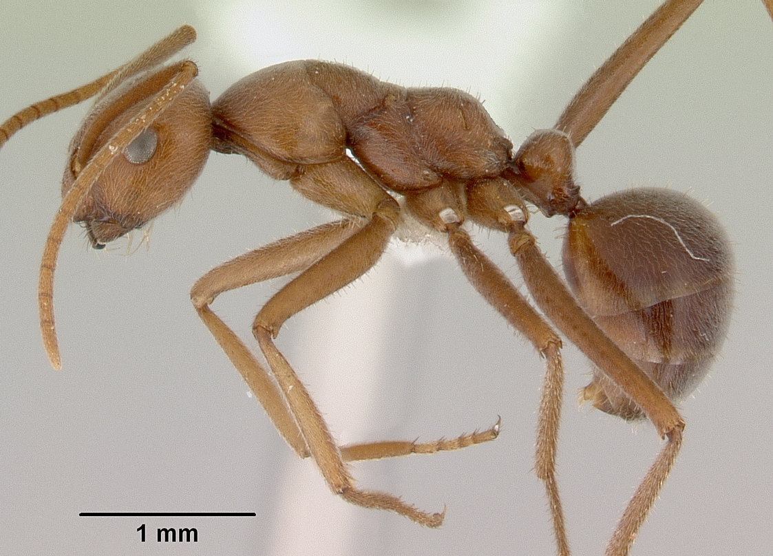 Profile view of ant Melophorus anderseni specimen casent0172008.